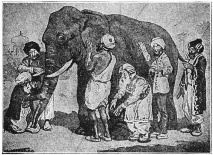 Blind men and an elephant